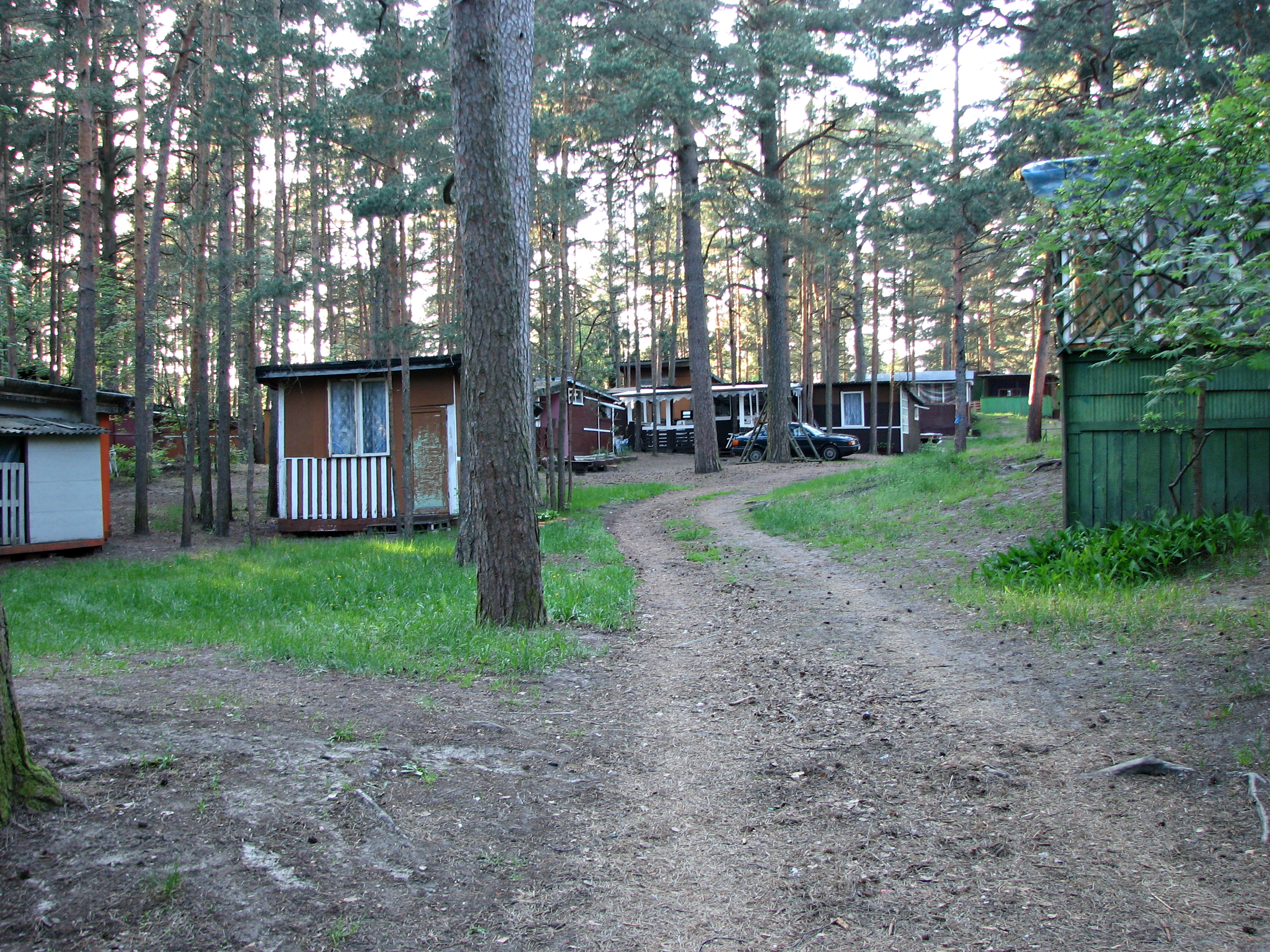 Summer houses in PriedaineLatviešu: Vasarnīcas Priedainē